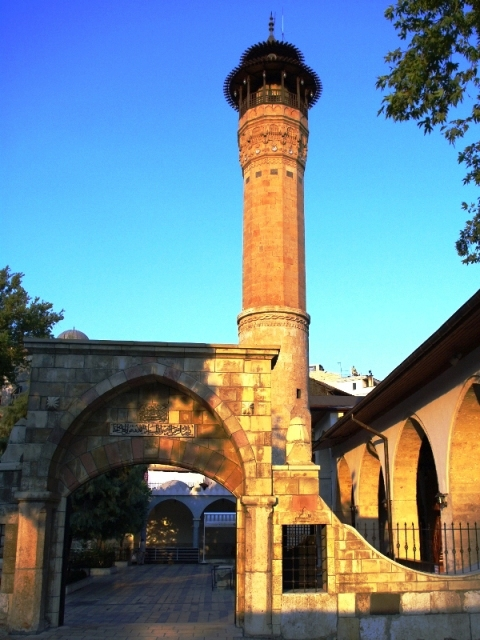 The minaret of Great Mosque of Kahramanmaras (original name is "Kahramanmaras Ulucami" in Turkish). Kahramanmaras, the capital city of the province called with same name, is located in northeastern part of Mediterranean Region of Turkey.